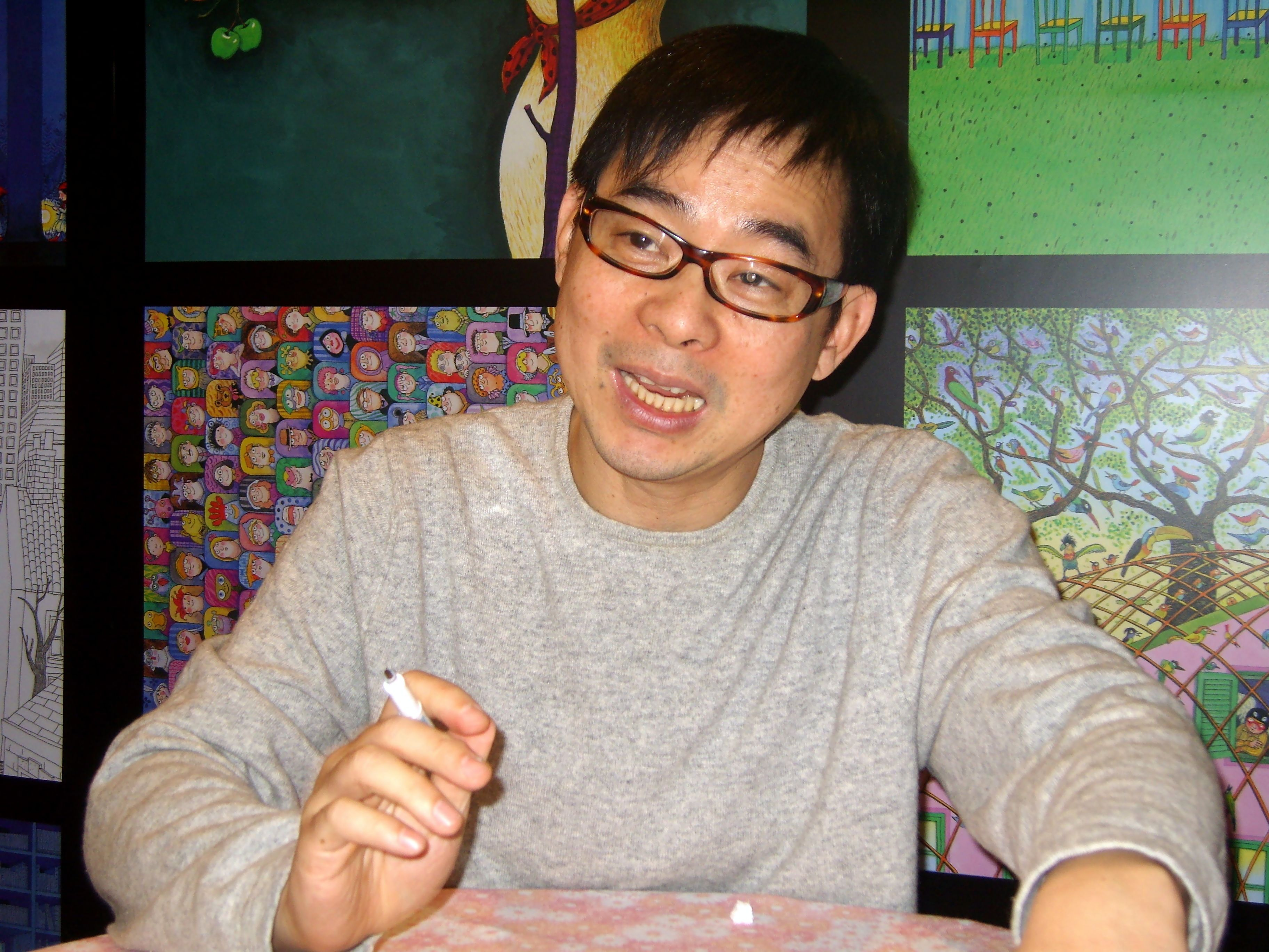 2008 Taipei International Book Exhibition - Locus Publishing: Jimmy Liao, famous illustrator in Taiwan.